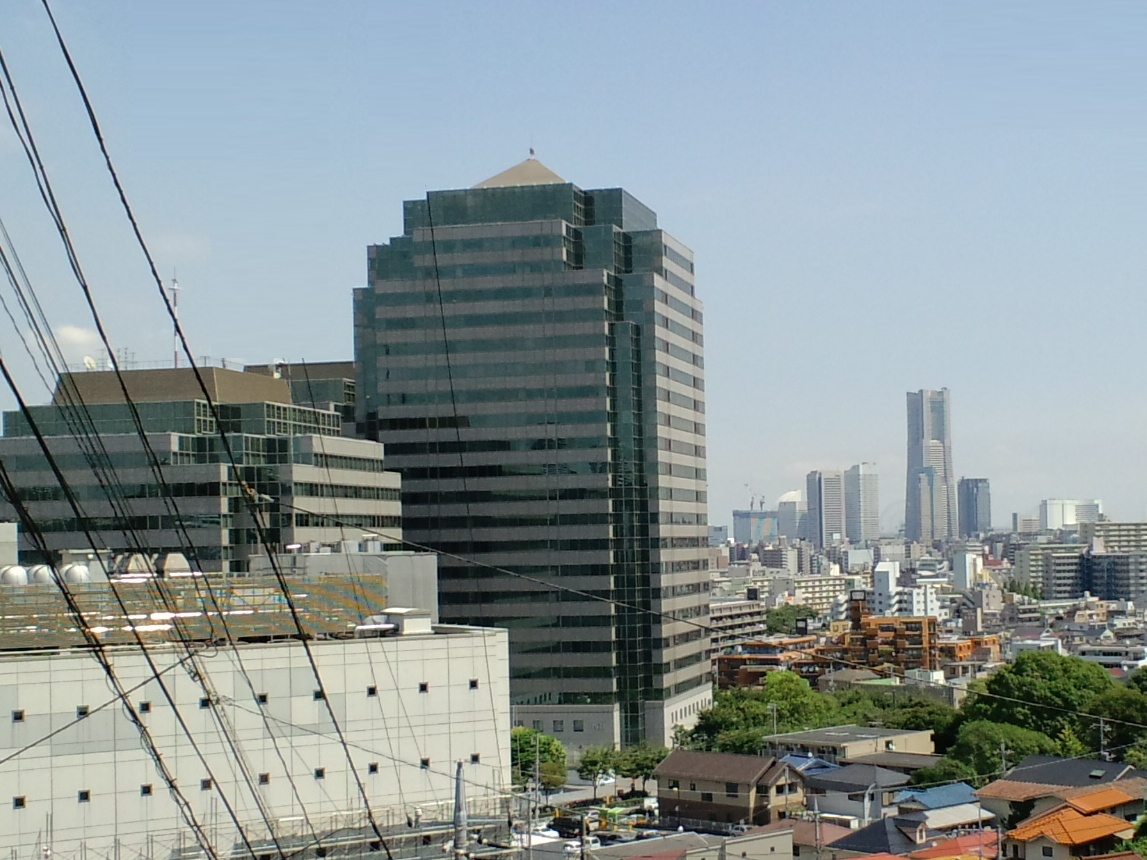 Yokohama Business Park (Hodogaya-ku Yokohama, Japan)